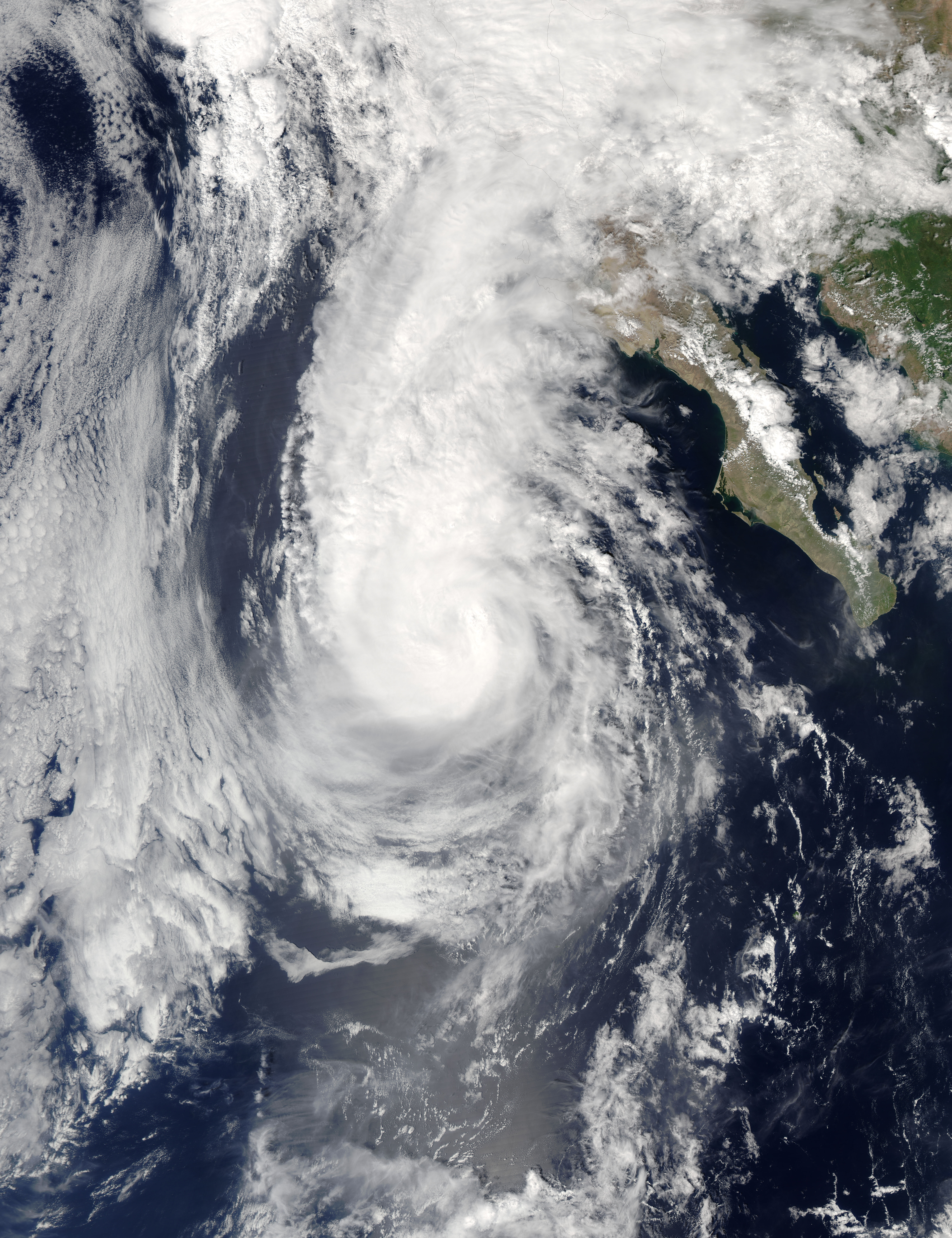 Hurricane Paine (17L) off Mexico